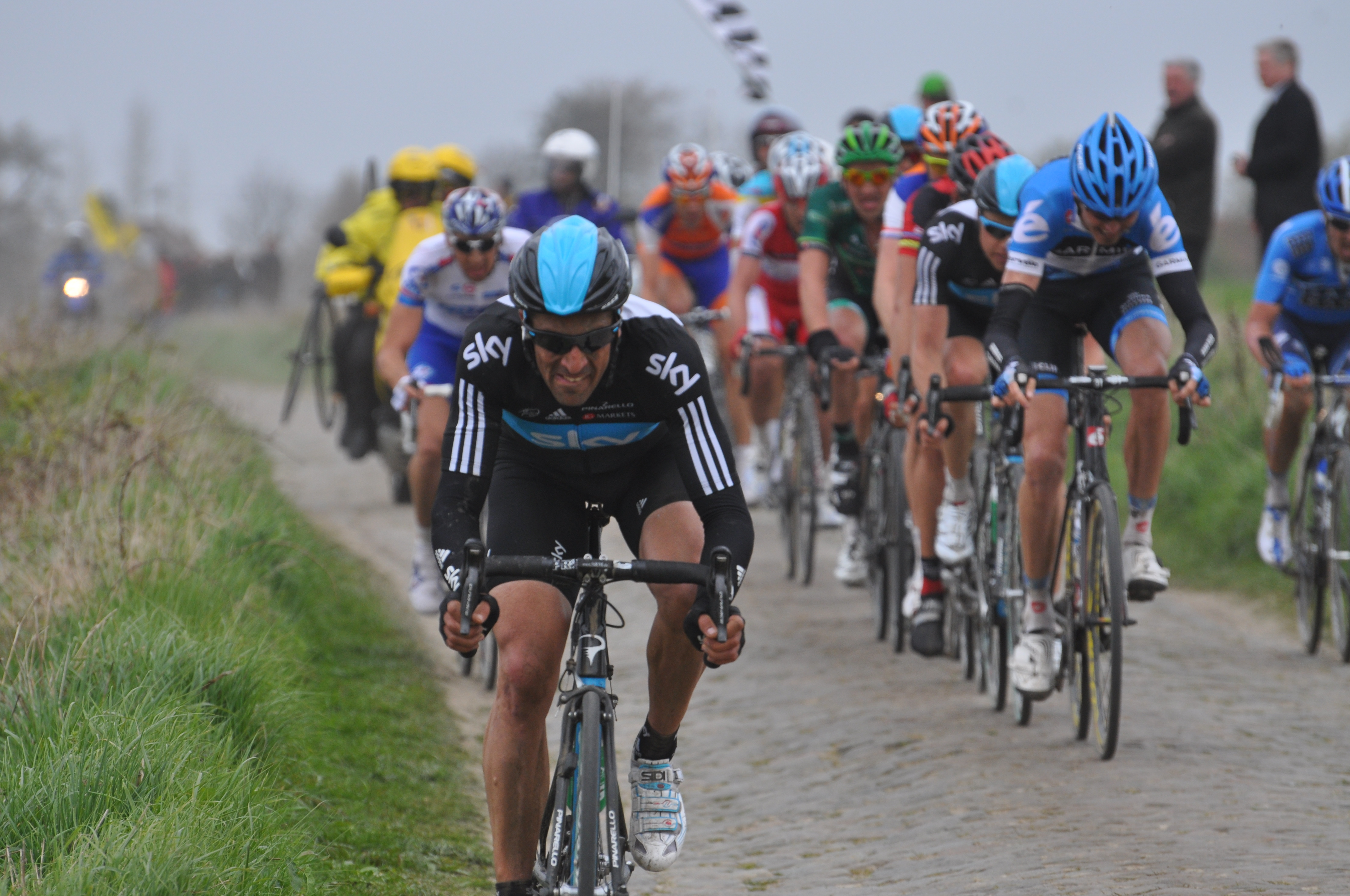 Juan Antonio Flecha